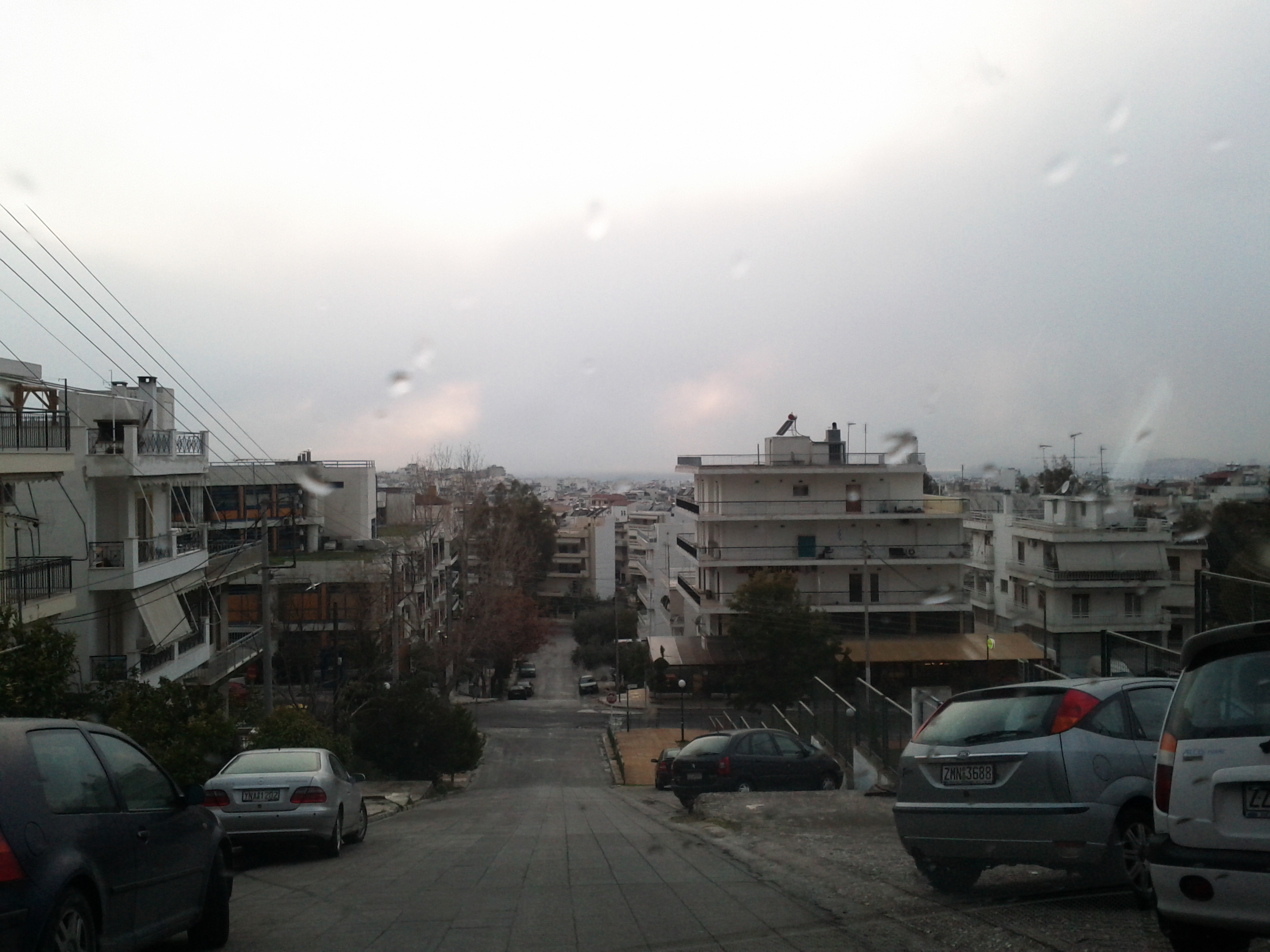 Cold near Alsos ilioupolis